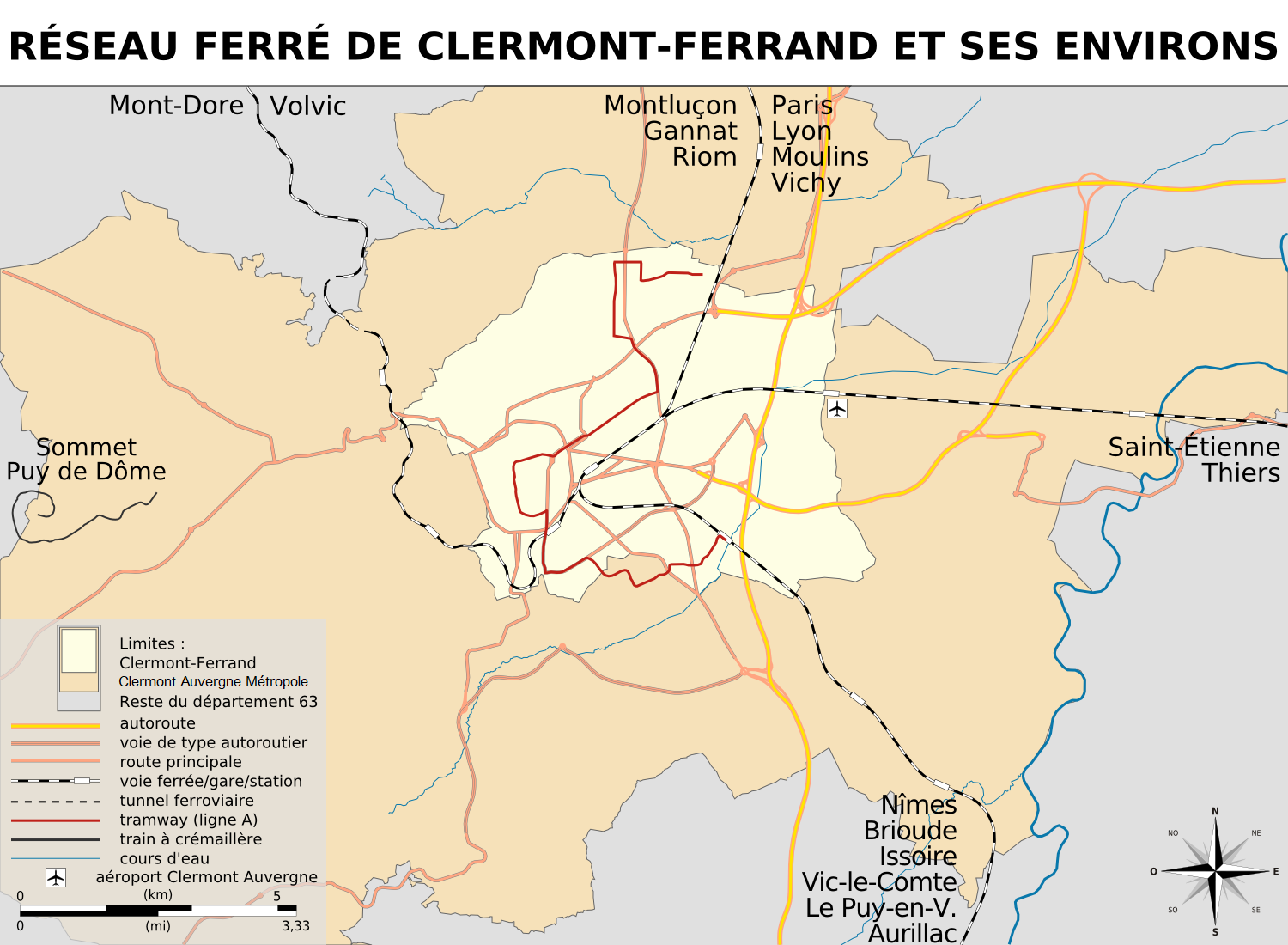 Map of rail network of Clermont-Ferrand and around (train, tramway, Puy de Dôme)